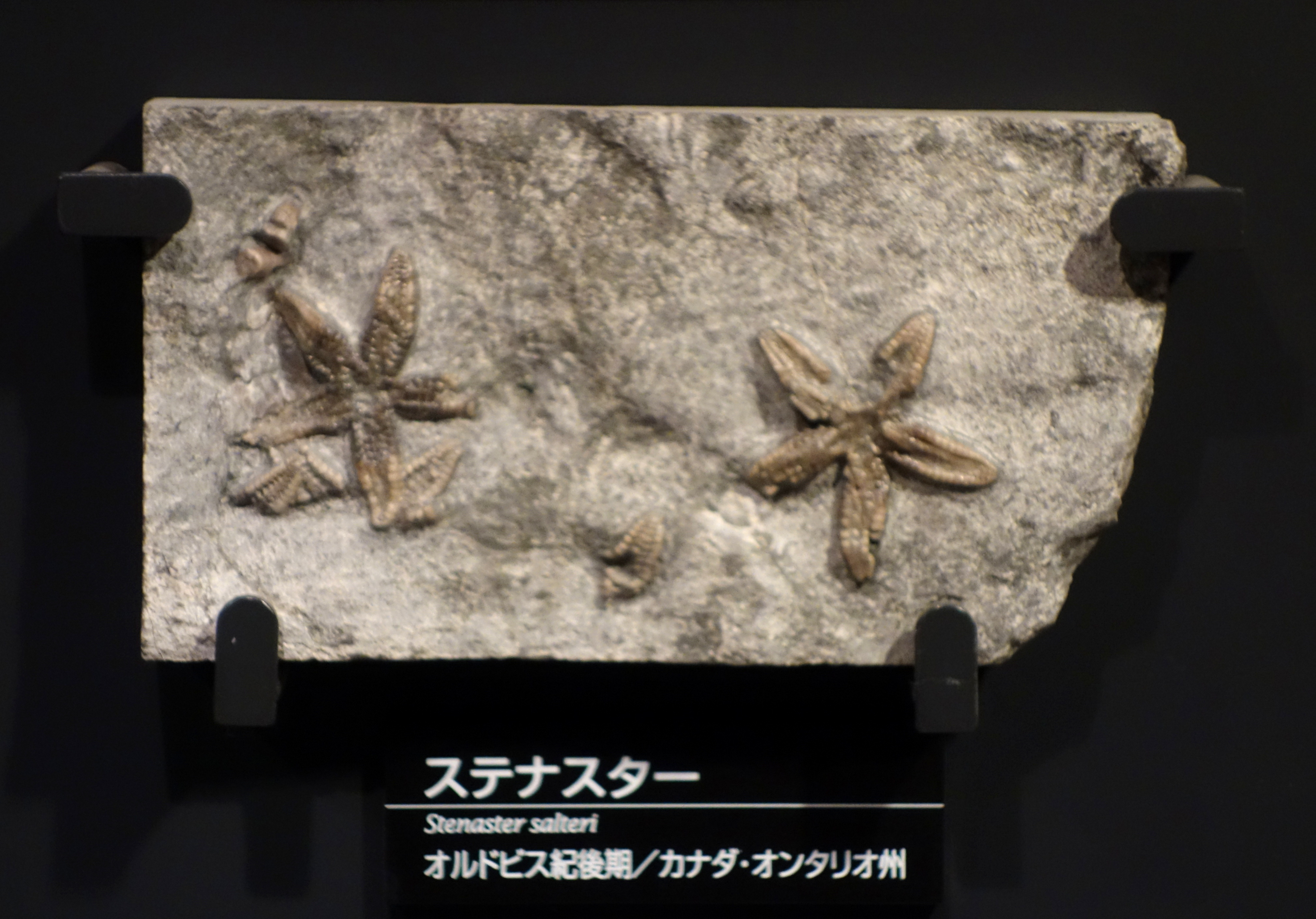 Exhibit in the National Museum of Nature and Science, Tokyo, Japan.